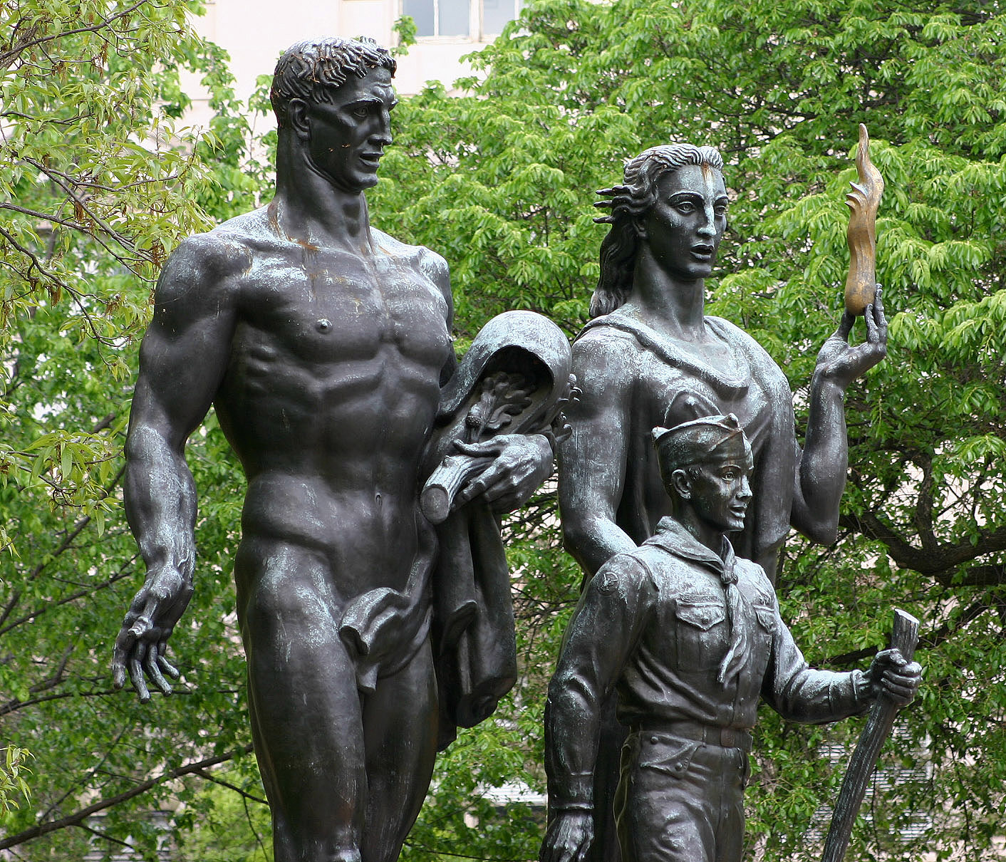 Boy Scout Memorial Location: 15th Street, NW between E Street and Constitution Avenue in Washington, D.C. Erected: 1964 Sculptor: Donald De Lue (1897–1988) DescriptionAmerican sculptorDate of birth/death5 October 189726 August 1988Location of birth/deathBostonLeonardoWork periodfrom 1917 until 1988Work locationUnited States of AmericaAuthority control : Q5294237 VIAF: 13196012 ISNI: 0000 0000 6680 4053 ULAN: 500048047 LCCN: nr91003606 GND: 122635515 WorldCat Architect: Willam Henry Deacy